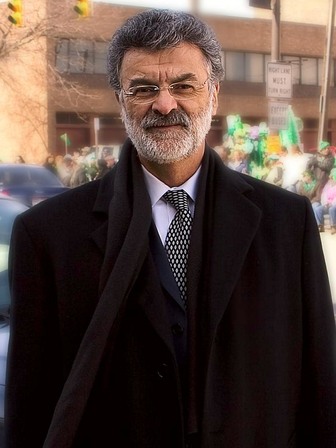 Frank Jackson, mayor of Cleveland, Ohio, at the 2008 St. Patrick's Day Parade.